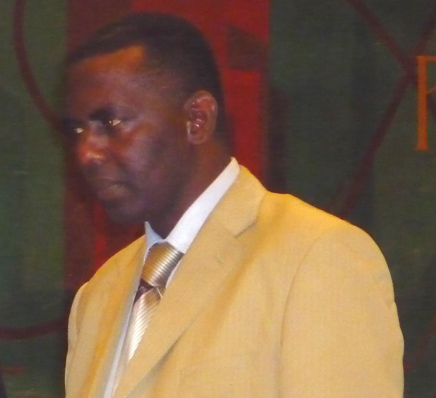 Biram Dah Abeid